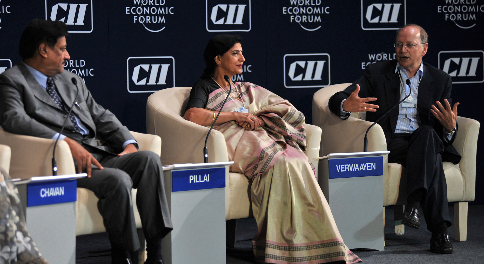 Prithviraj Chavan, Chief Minister of Maharashtra India, Sudha Pillai, Member Secretary, Planning Commission, India and Ben J. Verwaayen, Chief Executive Officer, Alcatel-Lucent, France; Member of the Foundation Board of the World Economic Forum; Co-Chairs of the India Economic Summit at the India in the New Global Reality (Opening Plenary Session) during the India Economic Summit 2011 in Mumbai, India, 12-14 November, 2011.